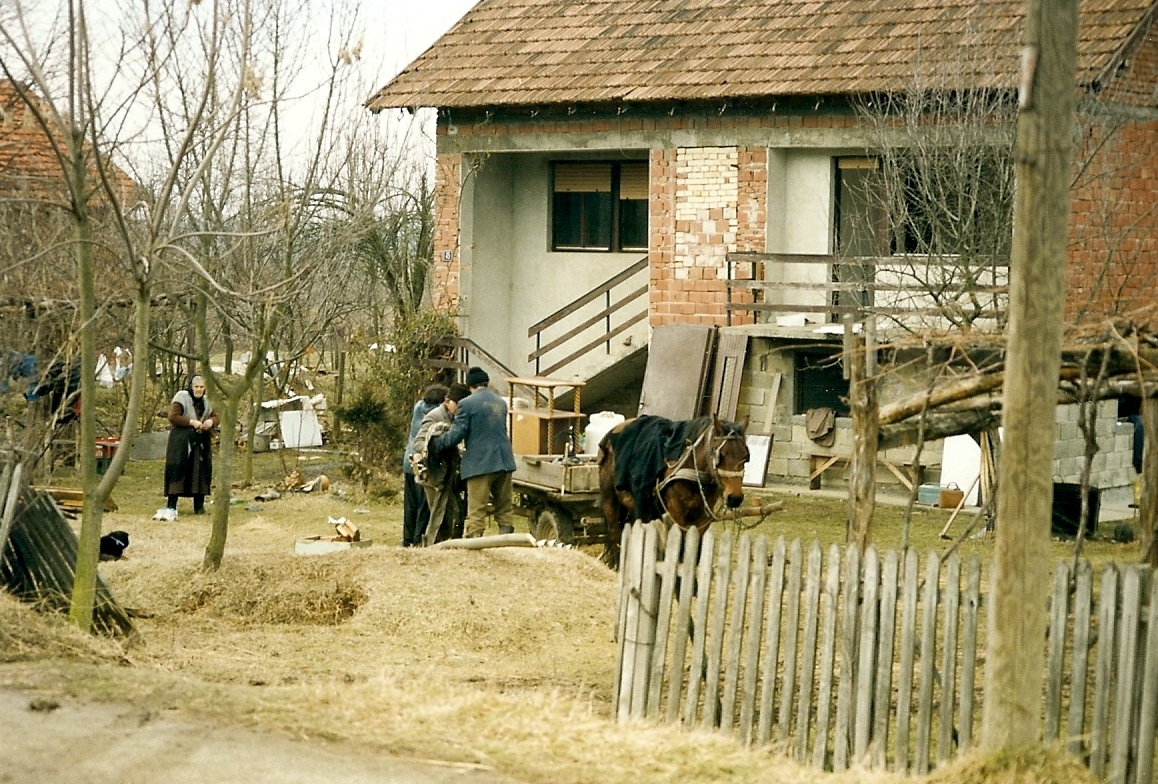 Serb families forced from their homes due to regulaions in the Dayton agreement from 1995. Picture taken near the town of Modrica, Noth-East in Bosnia